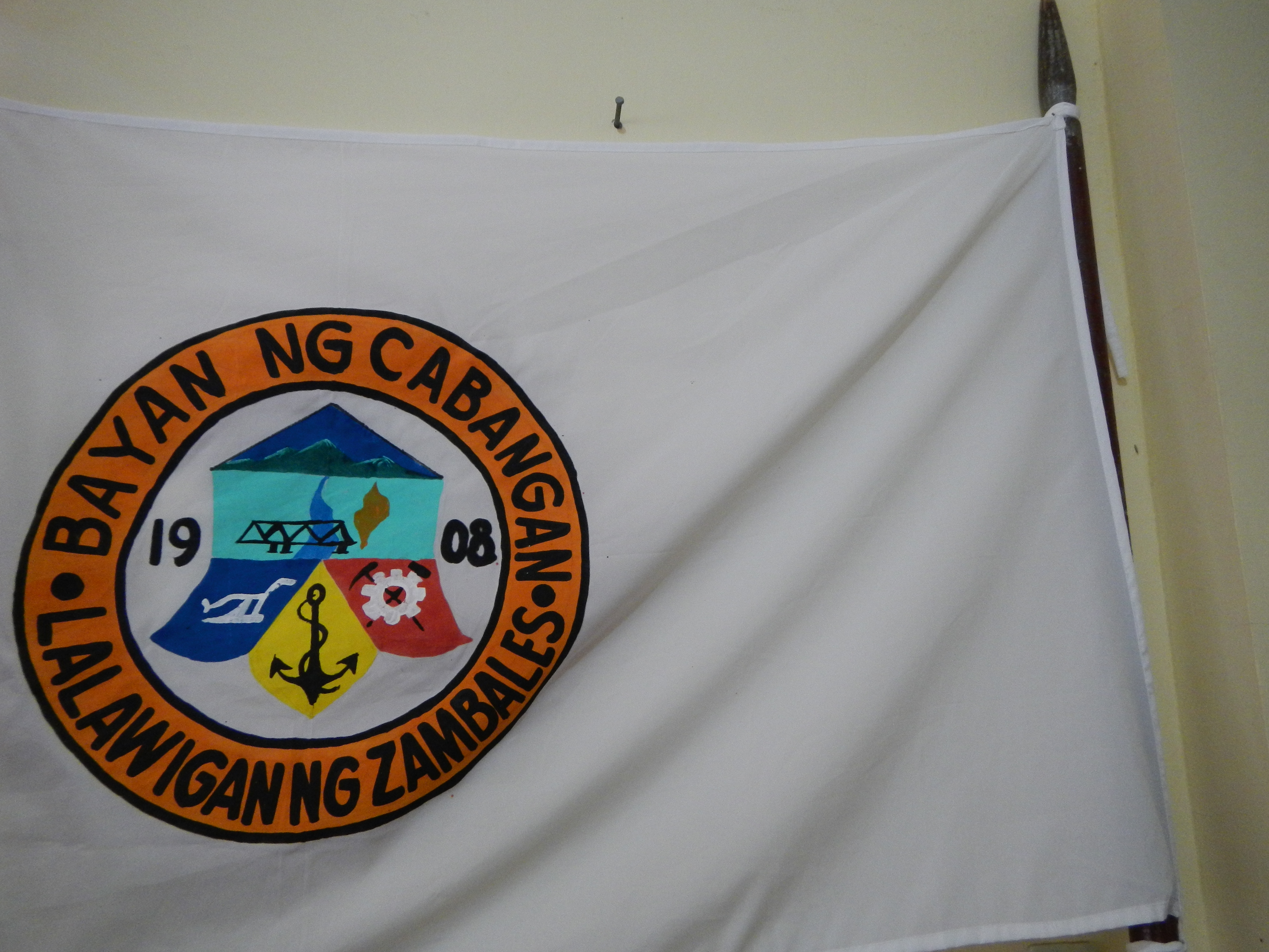 Cabangan Municipal Hall[1] Coordinates: 15°9'32"N 120°3'19"E Cabangan, Zambales[2] is a fourth class municipality in the province of Zambales, Philippines. According to the 2010 census, it has a population of 23,082 people.[3]geographical location: Zambales, Region 3, Philippines, Asia geographical coordinates: 14° 53' 0" North, 120° 13' 0" East This place is situated in Zambales, Region 3, Philippines, its geographical coordinates are 14° 53' 0" North, 120° 13' 0" East and its original name (with diacritics) is Cabangan.[4]Land Area: 239.40 km² ZIP Code: 2203 Coordinates: 15°10'31"N 120°7'0"E[5] [6] PCIJ: Cabangan in Zambales: Unchanged by elections April 13, 2007 [7] San Isidro, Cabangan, Zambales [8] Mga isdang ginamitan ng dinamita, kinumpiska ng Cabangan MPS September 2, 2012 --30, 2011 Ombudsman raps Mayor Apostol of Cabangan, Zambales ---1856 Saint Rose of Lima Parish Church of Cabangan --- National Rd, Cabangan, Zambales[ [9] [10] (F-1856) Santa Rosa de Lima Parish Church (Cabangan, Zambales)[11][12][13]Parish of St. Rose of Lima (F-1856), Cabangan 2203 Zambales Titular: St. Rose of Lima, Aug. 23 Administrator: Fr. Felix P. Labios Jr. San Sebastian Vicariate Vicar Forane: Fr. Daniel O. Presto[14] It belongs to the Roman Catholic Diocese of Iba[15] [16]Population: 15,323; Catholics: 10,062 Titular: St. Rose of Lima, August 23 Parish Priest: Rev. Fr. Teodoro F. Camat Southern Vicariate Vicar Forane: Rev. Fr. Audencio Mozo, Jr.